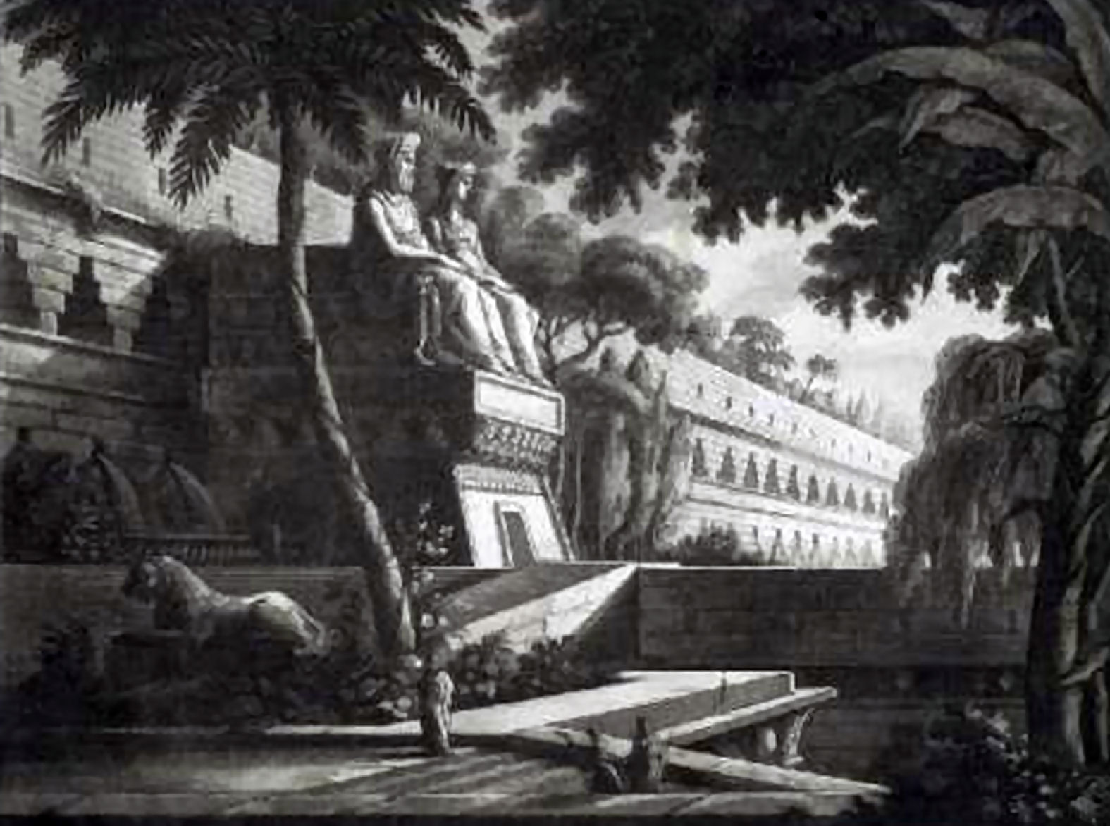 Antonio Basolli's stage set for the Meyerbeer's opera Semiramide riconosciuta (the Hanging Gardens of Babylon)